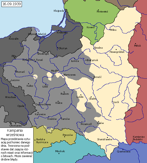 Map of Invasion of Poland in this certain day.